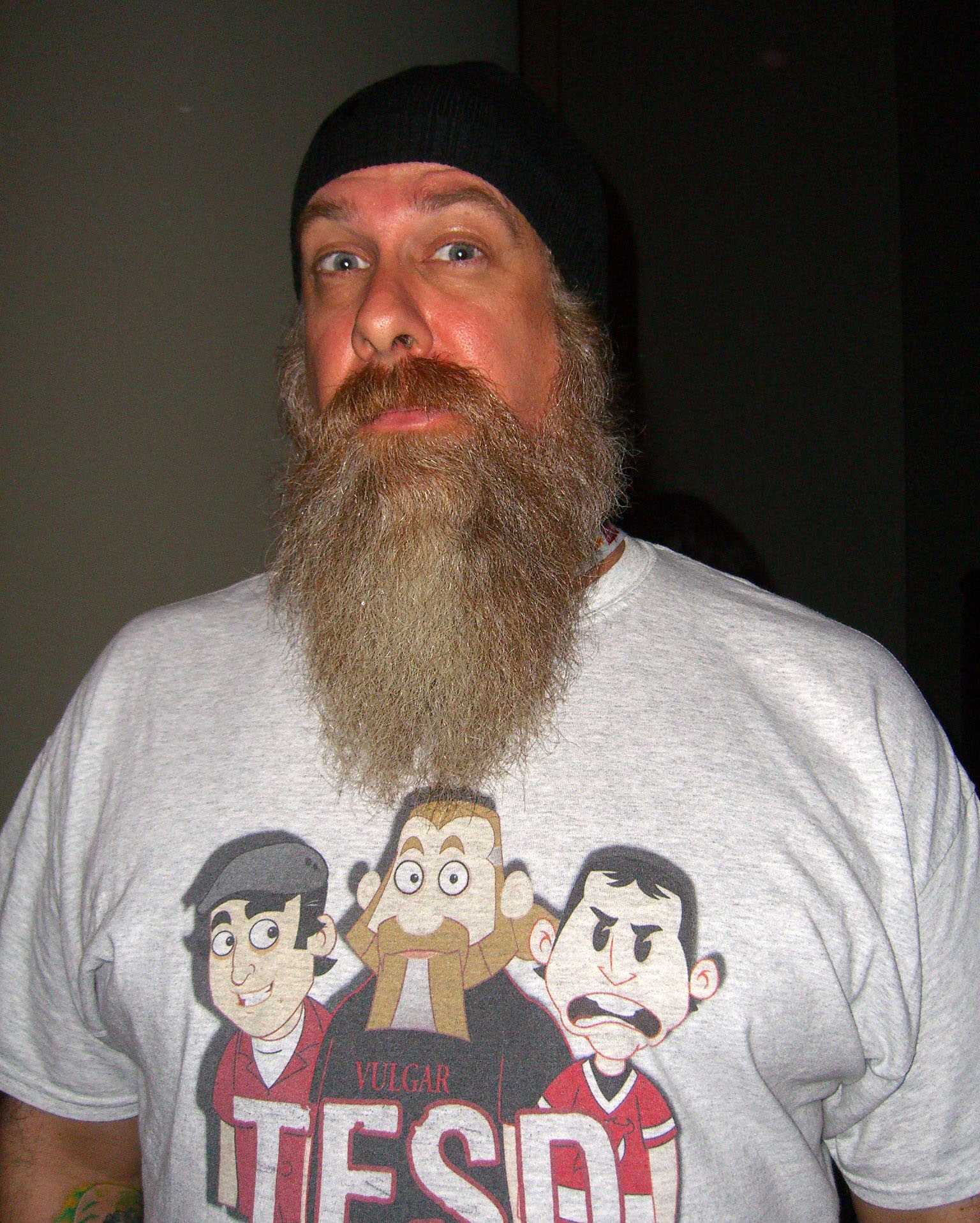 Filmmaker and reality television personality Bryan Johnson following the Comic Book Men panel discussion at the IGN Theater on Day 2 of the 2012 New York Comic Con, Friday October 12, 2012 at the Jacob K. Javits Convention Center in Manhattan. This photo was created by Luigi Novi. It is not in the public domain, and use of this file outside of the licensing terms is a copyright violation.